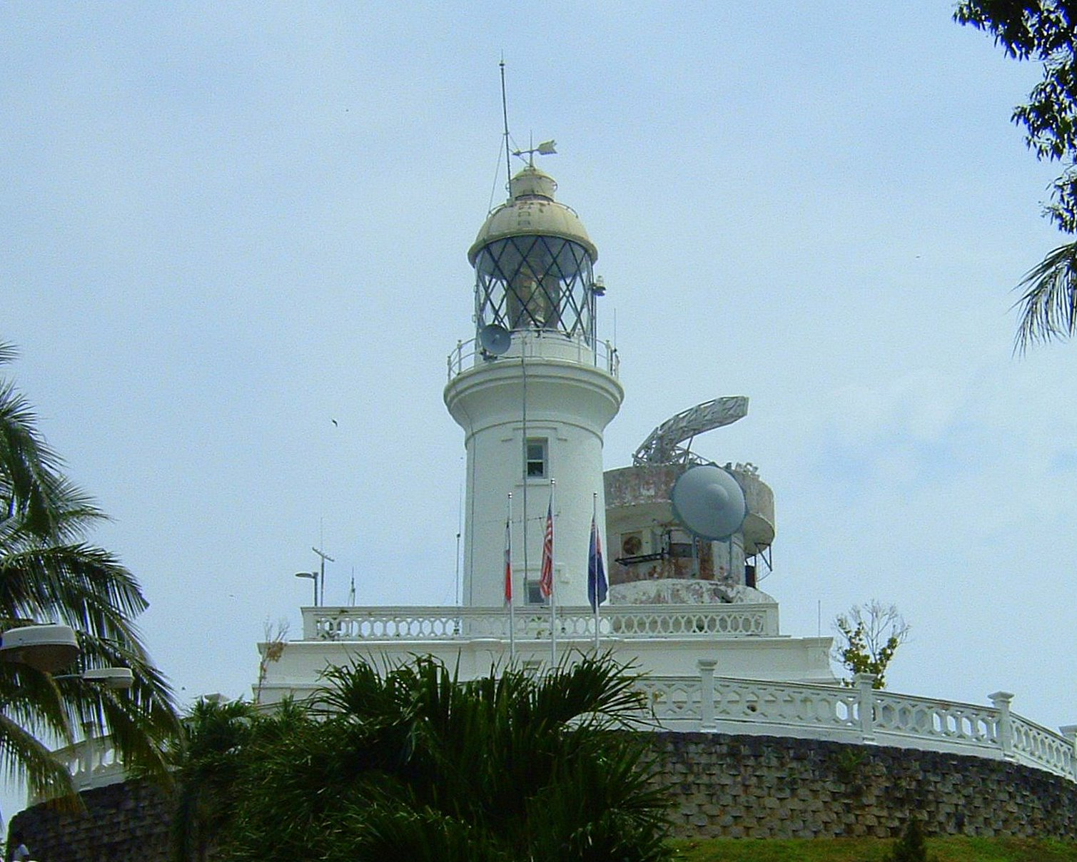 Tanjung Tuan (Cape Rachado) lighthouse (NGA:112-21748)